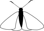 Drawing of Euschemonia